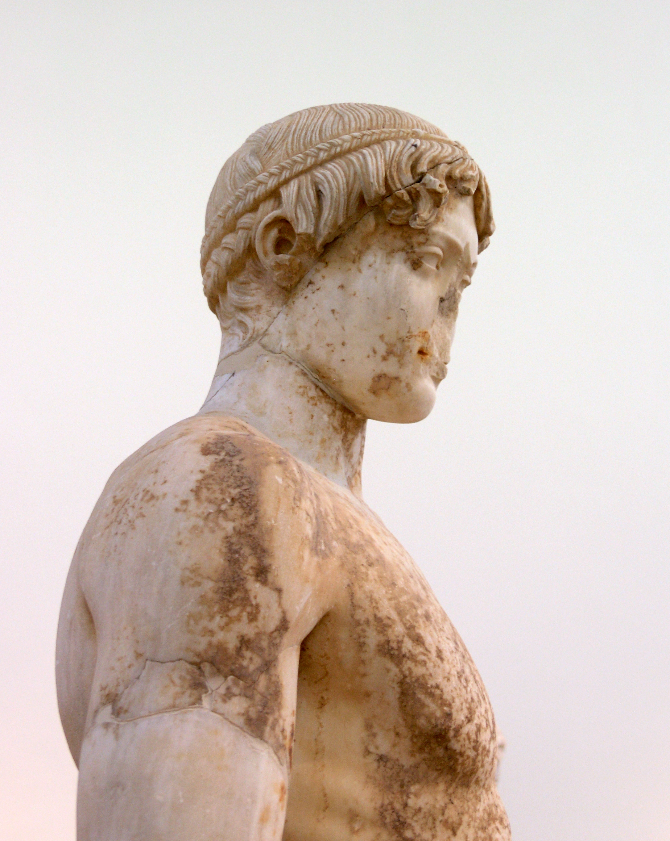 Statue of Apollo, Pentelic marble. Found in Athens at the Theater of Dionysos, known as the Omphalos Apollo : it was named after a base in the shape of omphalos, with which it was originally associated. Work of the 2nd century A.D. copying a bronze original sculpted in 460-450 BC. by a sculptor of the Severe Style, possibly Kalamis.